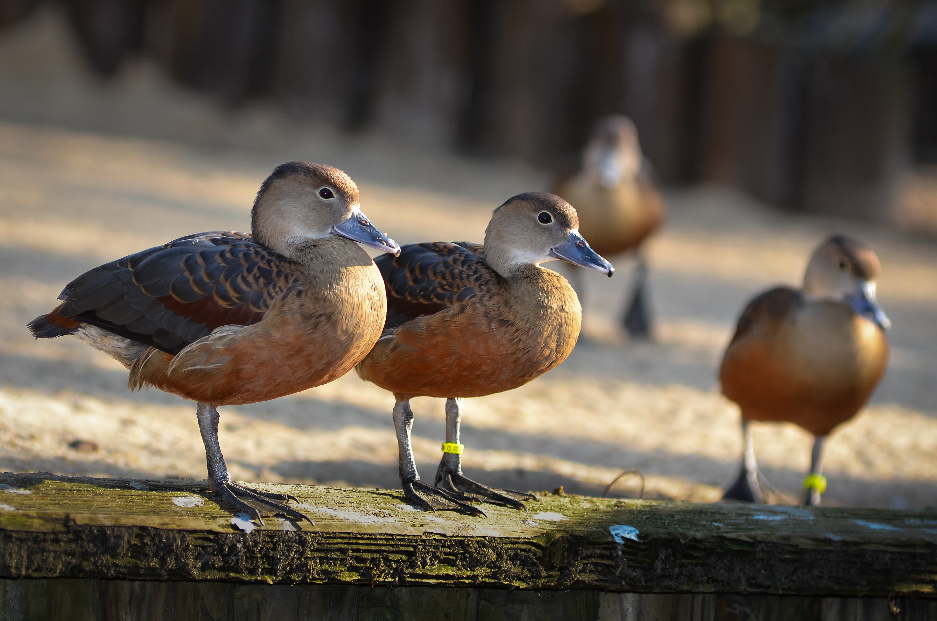 Lesser Whistling Duck (Dendrocygna javanica) at Weltvogelpark Walsrode (Walsrode Bird Park, Germany)